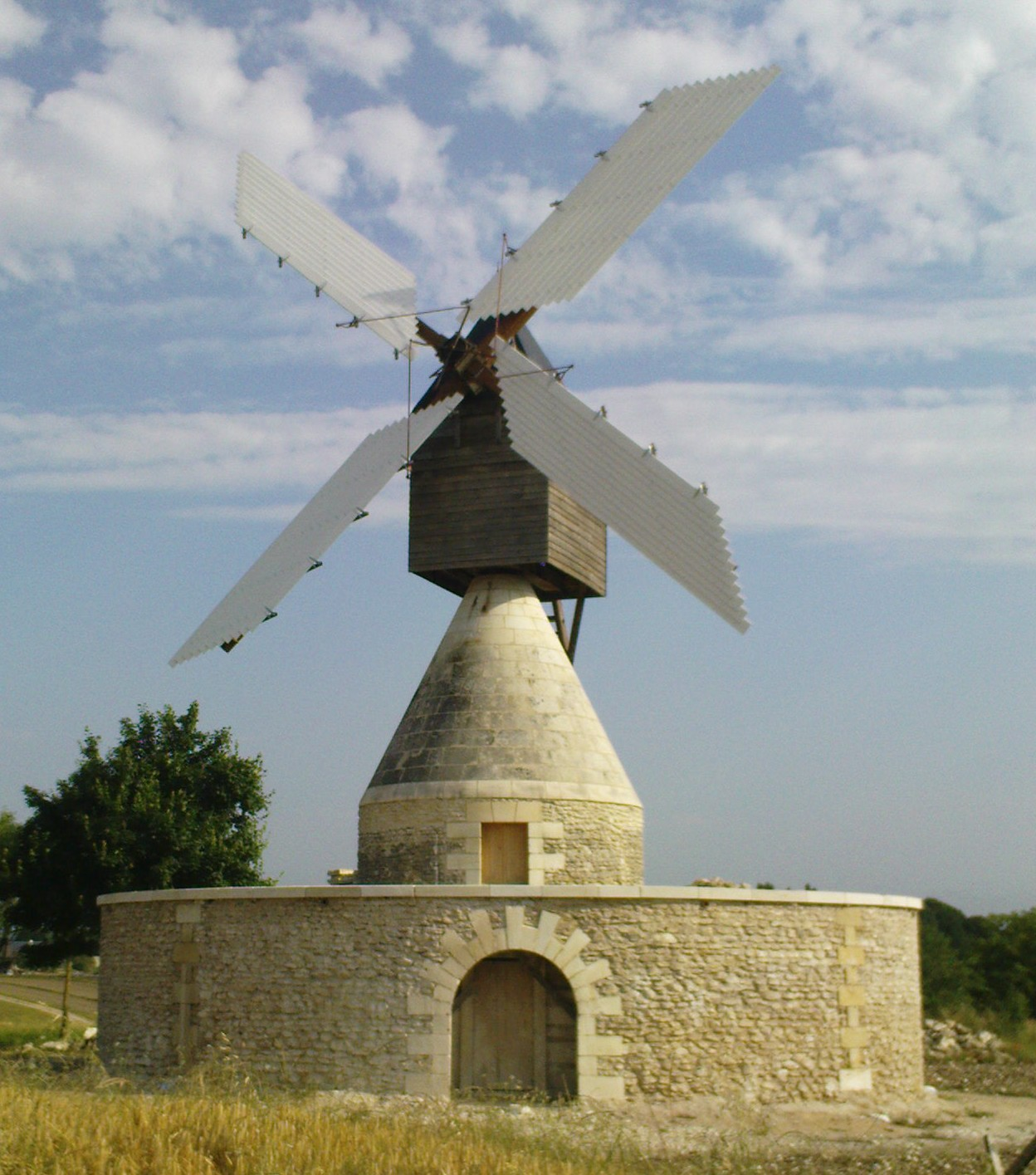 Moulin des Aigremonts, Bléré, Indre-et-Loire, France, june 2008, front view.